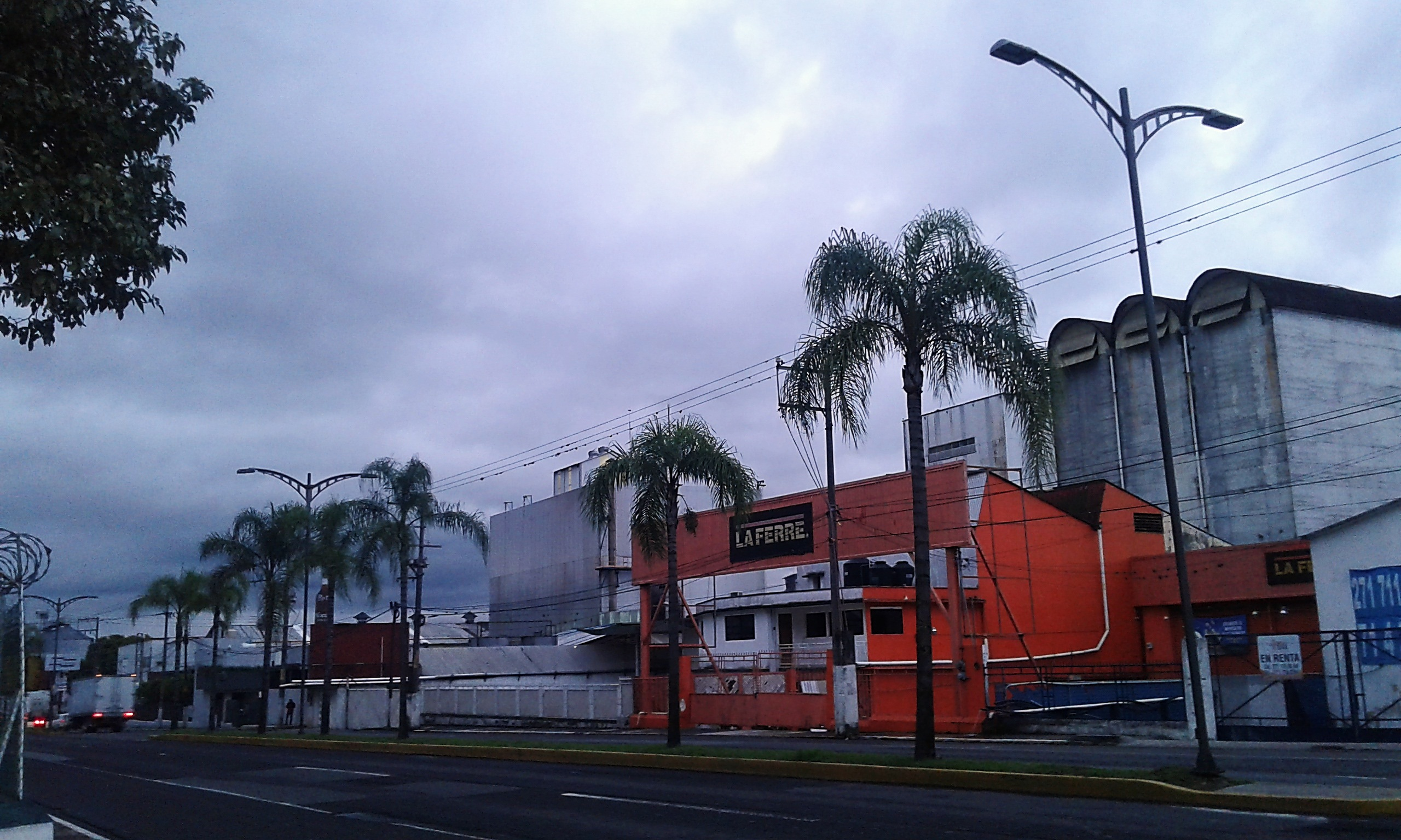 boulevard cordoba peñuela